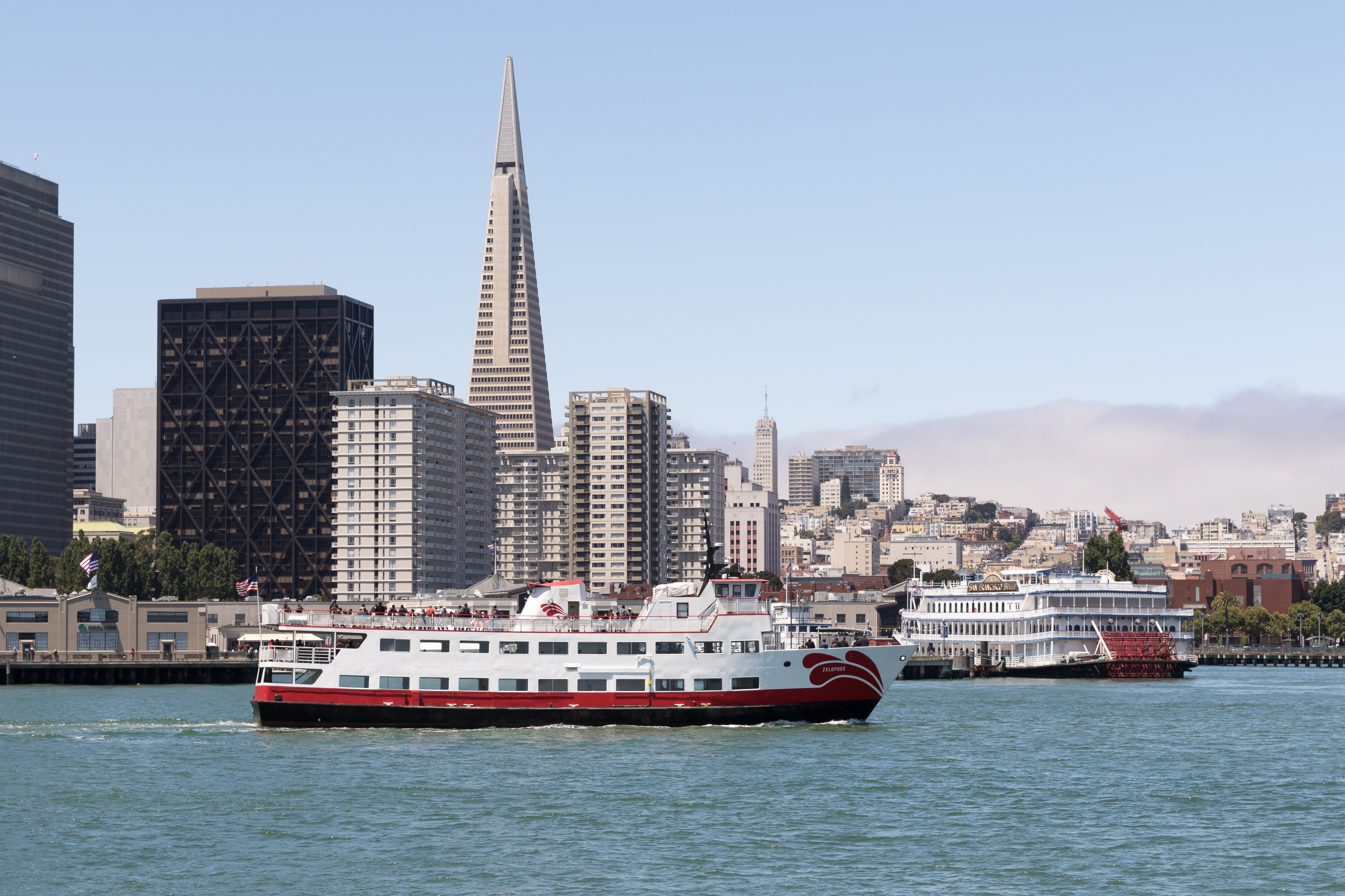 San Francisco harbor scene with Transamerica Pyramid